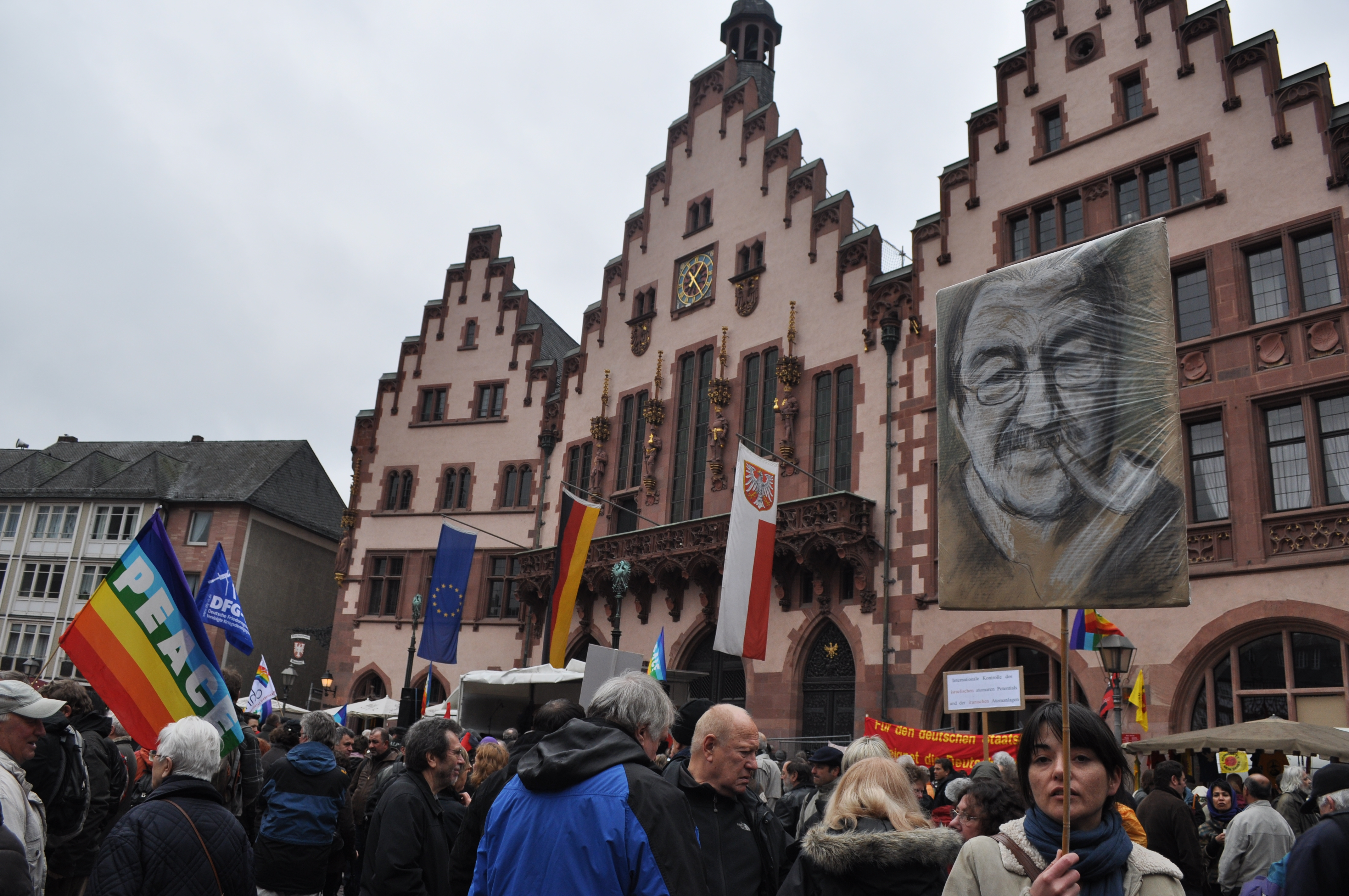 Protester with self painted Portrait of Günter Grass at the Eartern Marsch (anti-nuclear weapons demonstration) in Frankfurt, 2012.